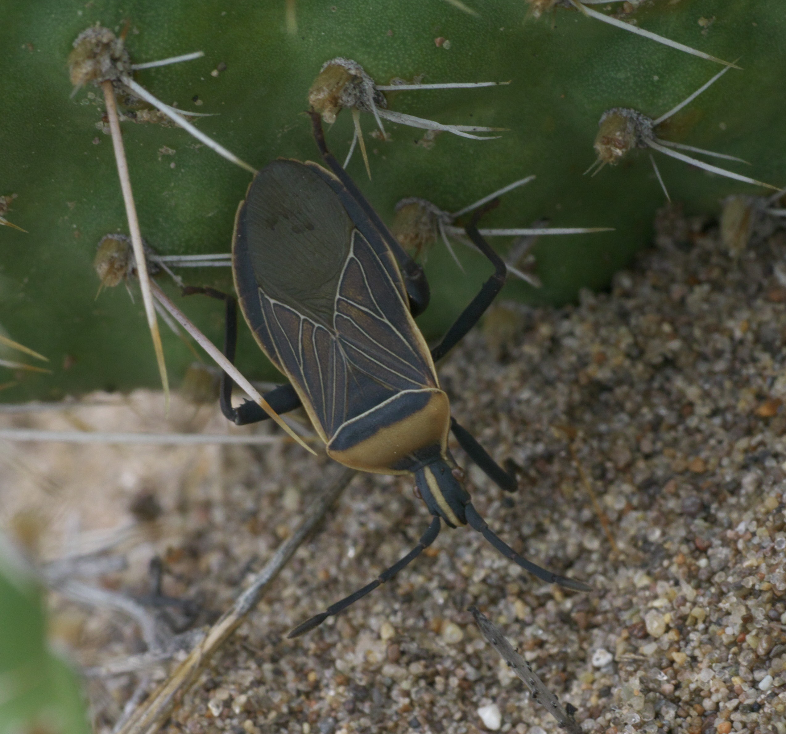 Chelinidea vittiger, Cactus Coreid, ID Confidence: 90